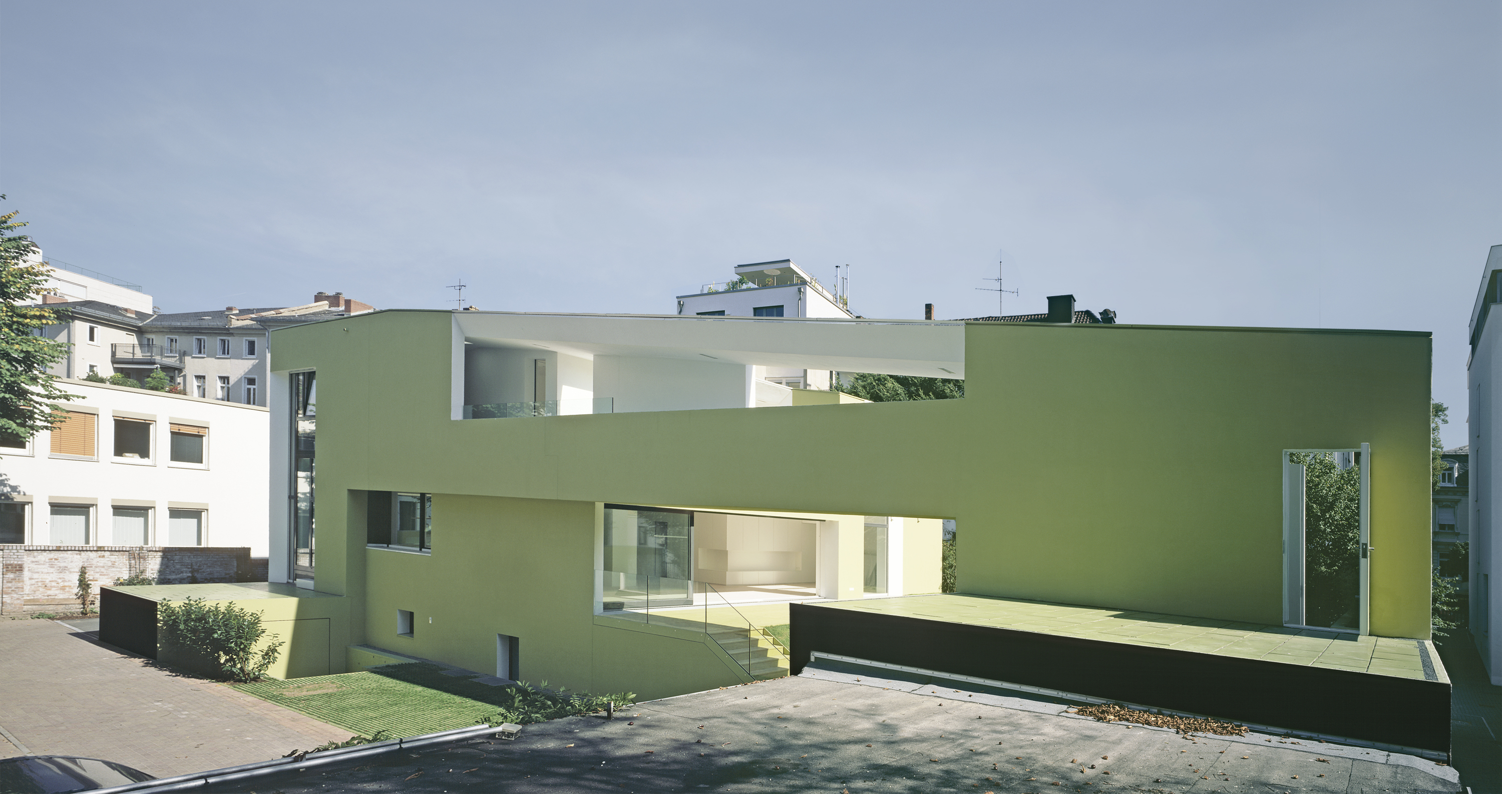 Residential house Schmuck, Frankfurt am Main, Germany.